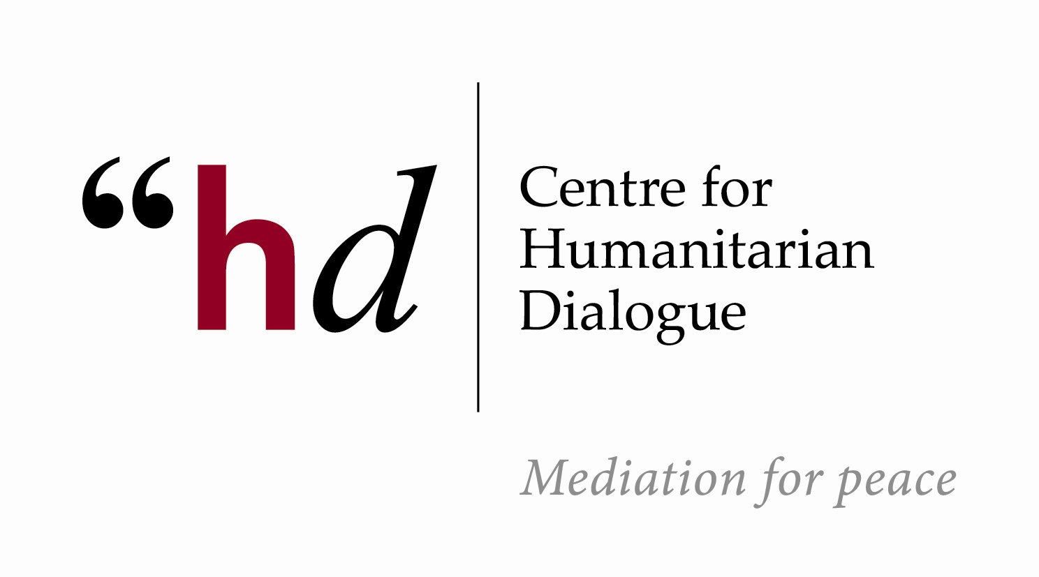 This is a logo for the Centre for Humanitarian Dialogue